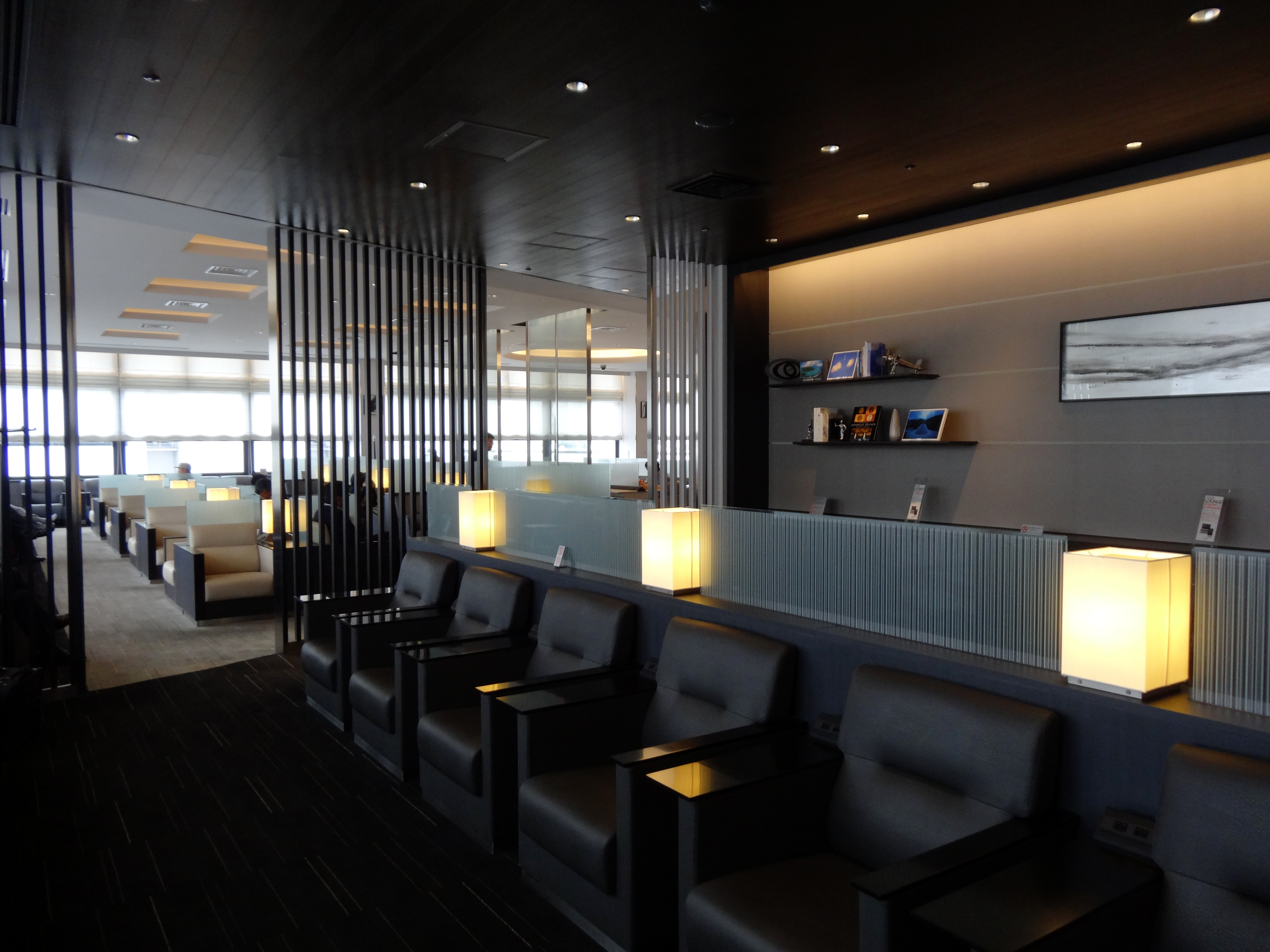 ANA Lounge of Osaka International Airport in Itami, Hyogo prefecture, Japan.